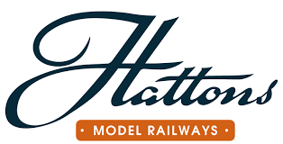 Current Hattons logo